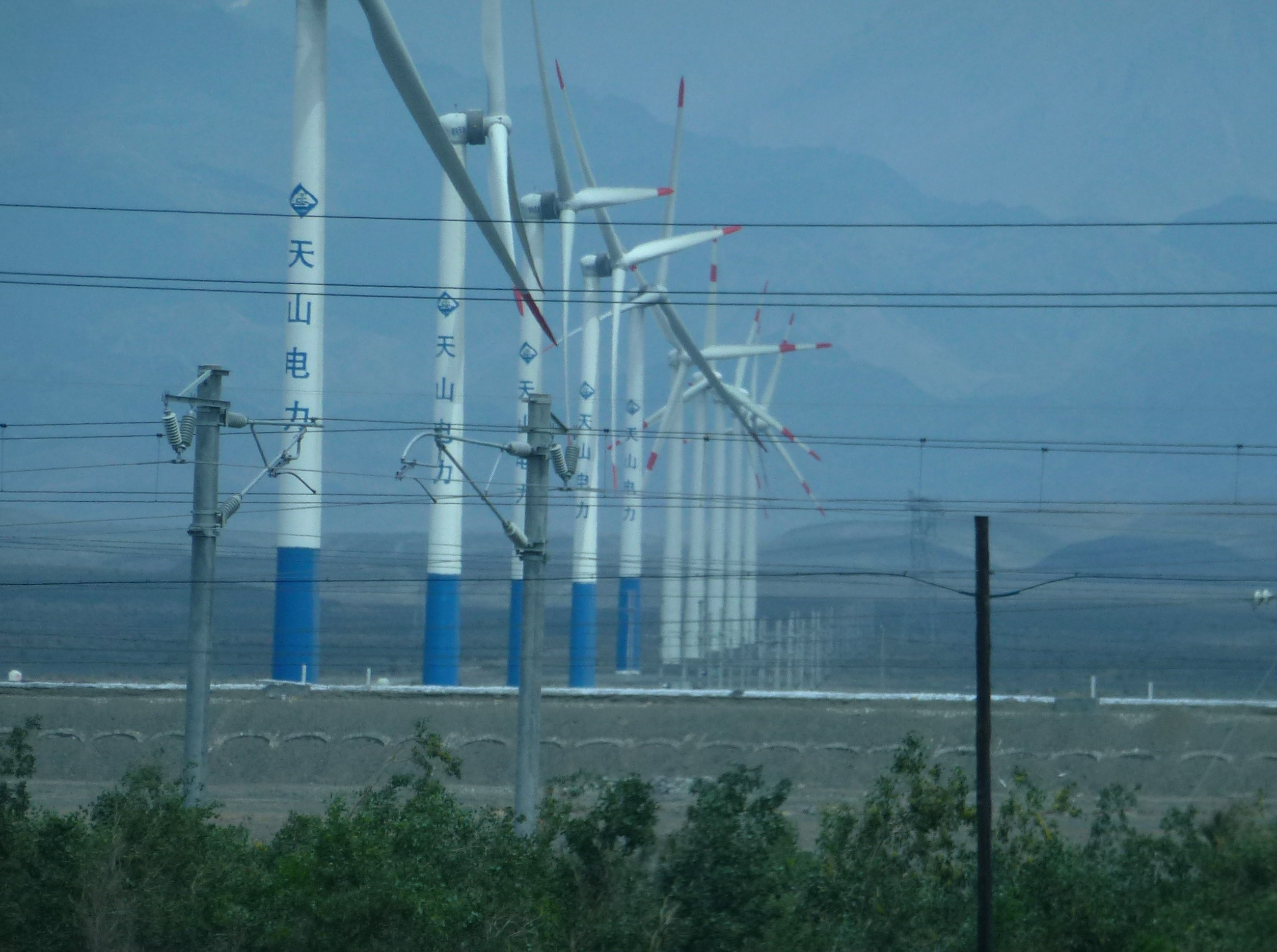 Wind power plants,Turfan-Urumqi 2012